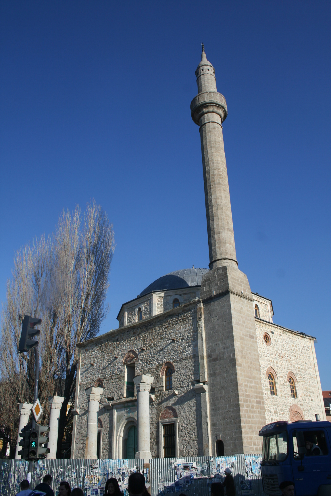 Constructed in the 15th century by Turkish Sultan Bajazit to commemorate the 1389 victory,St.Agim Ramadani- in front of the Kosovo Museum.